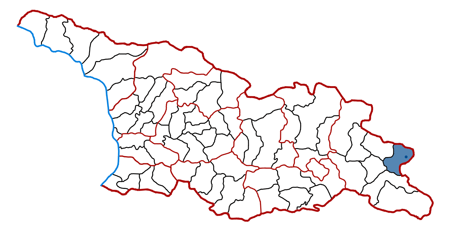 Location of Lagodekhi district in georgia